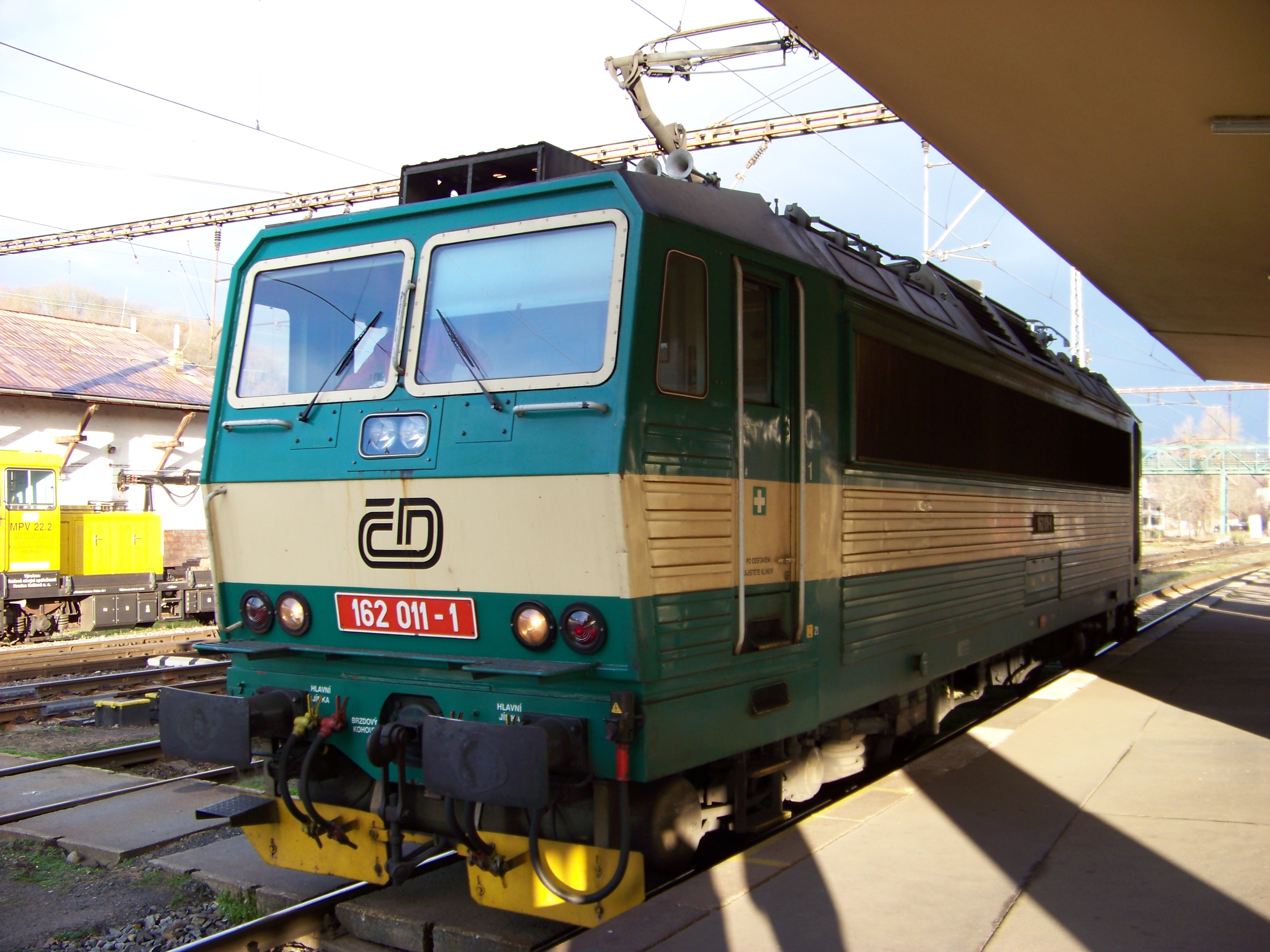 Prague-Smíchov, the Czech Republic. An electric locomotive of 162 class, 162.011.